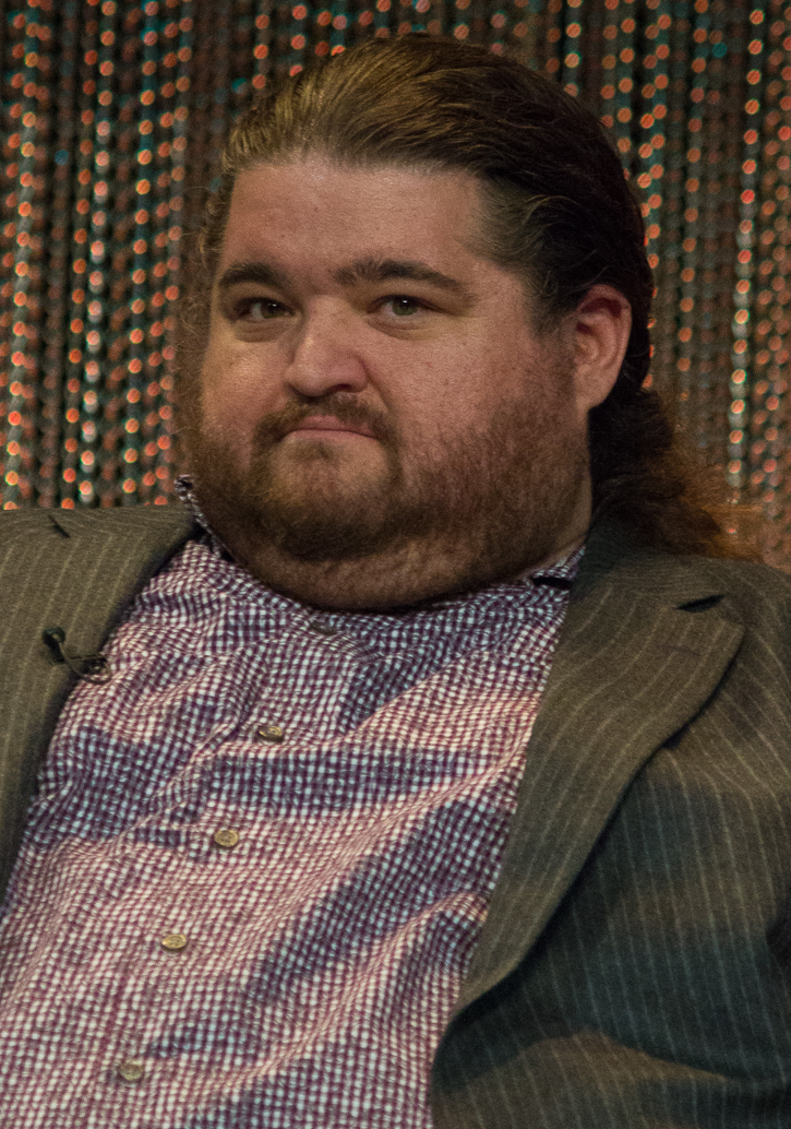 Garcia at the New York PaleyFest 2014 for the TV show "Lost"